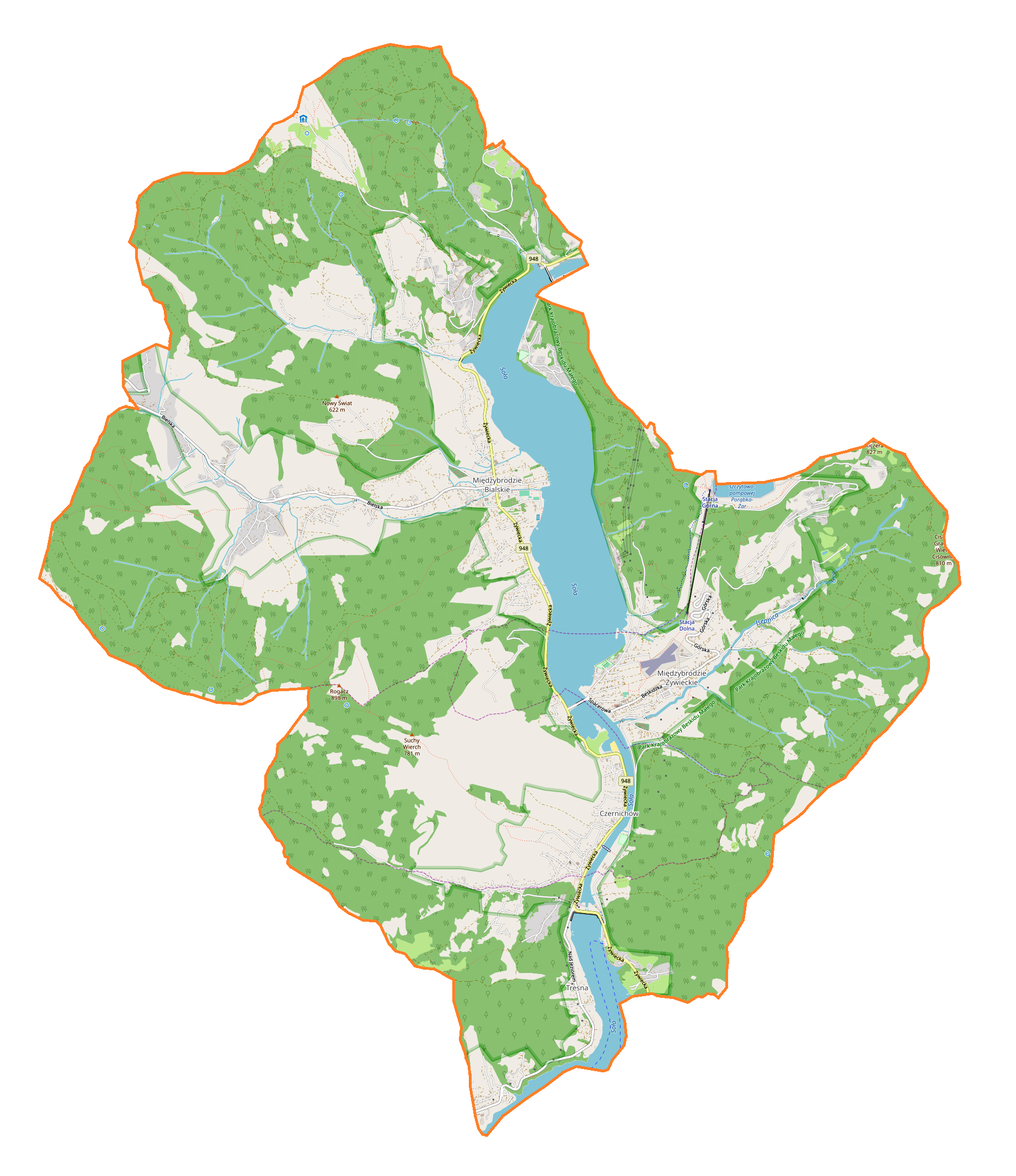 Location map